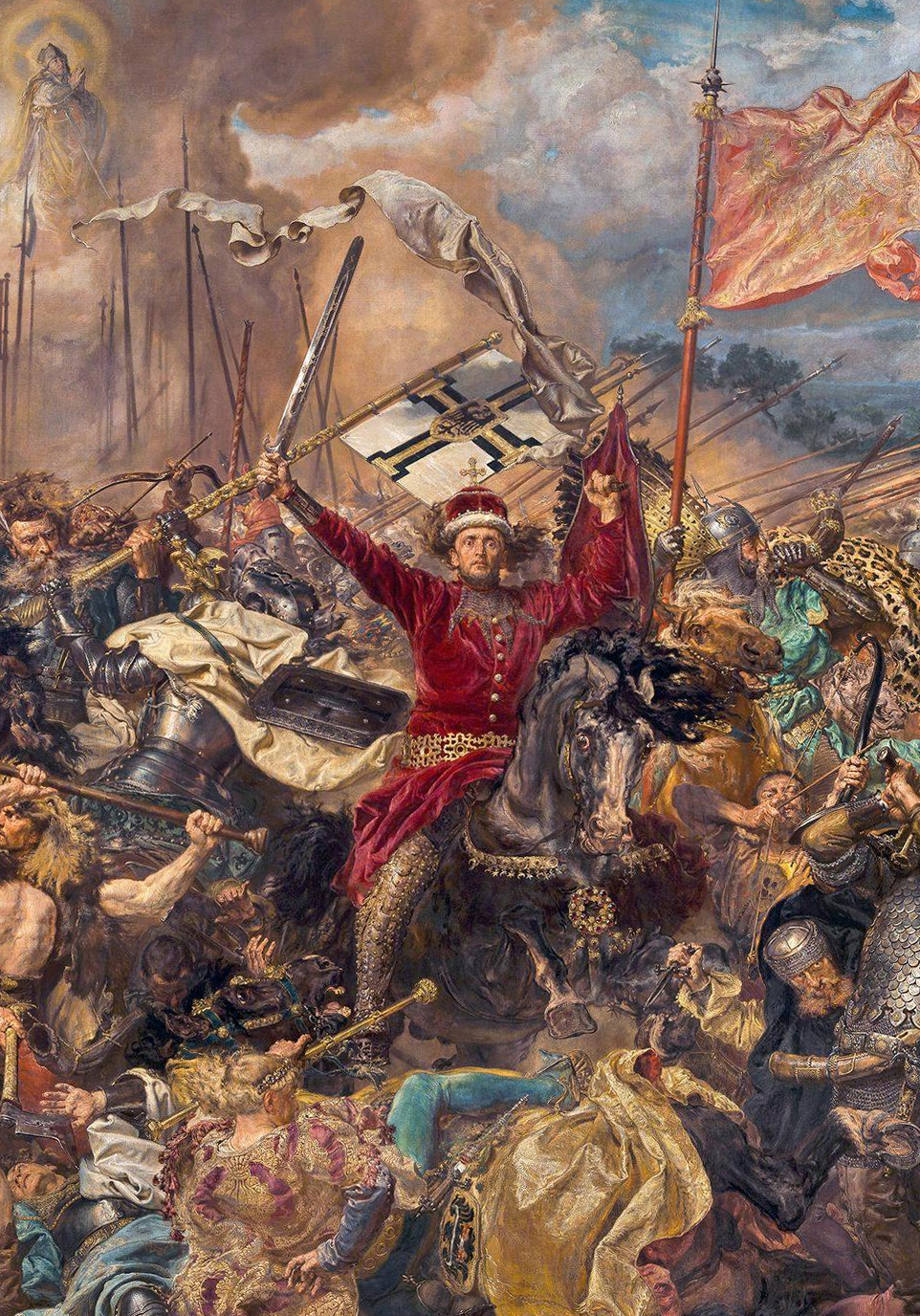 Fragment of Battle of Grunwald, Vytautas the Great